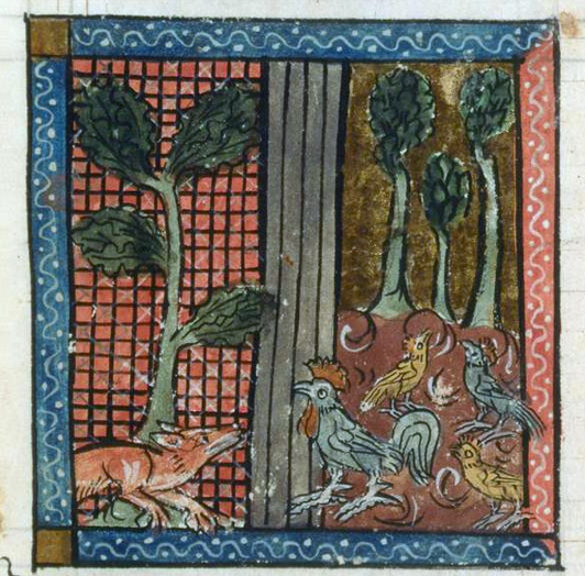 A mediaeval illumination of Renart et Noiret